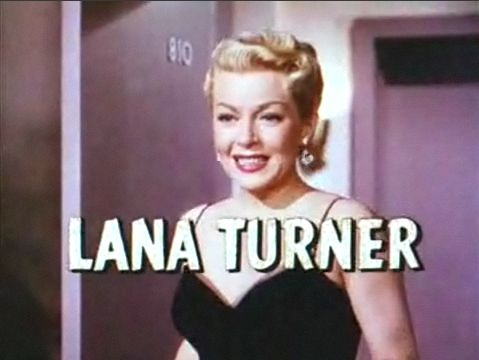 Cropped screenshot of Lana Turner from the trailer for the film Latin Lovers